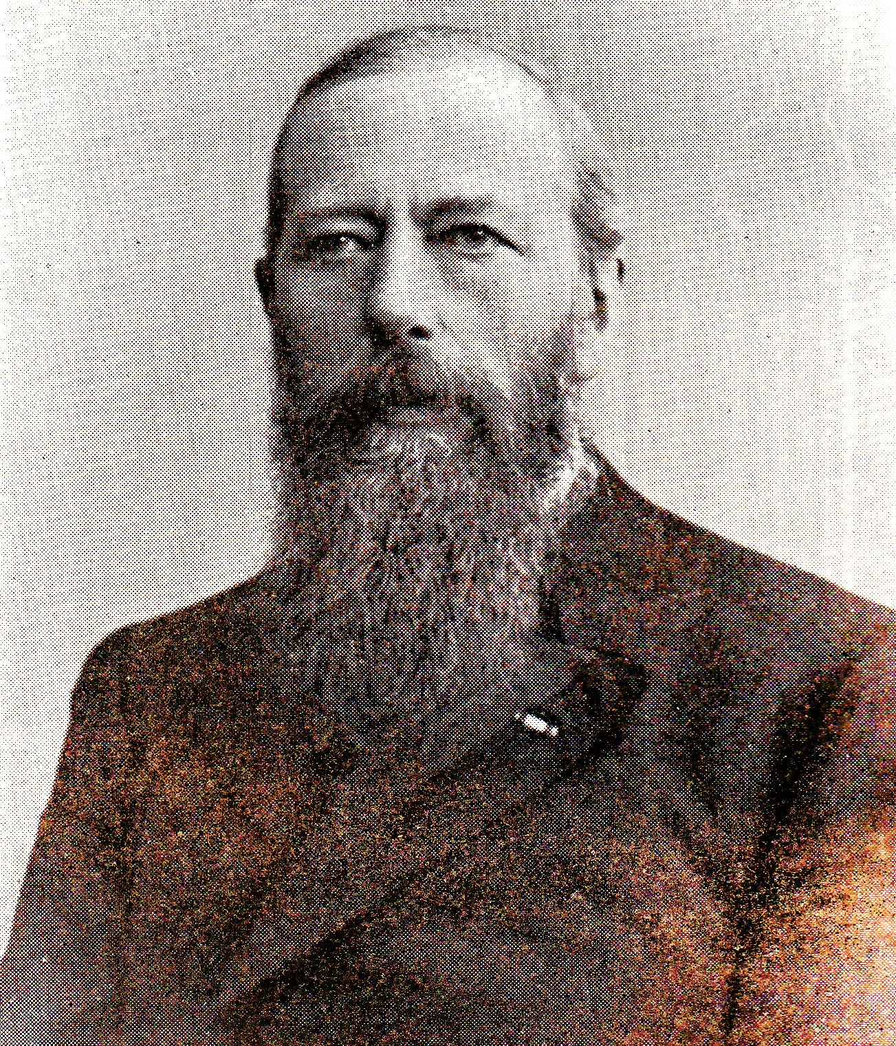 J. Menno Huizenga